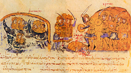 The Byzantines under the general Damian attack Crete but are defeated by the Saracens, ca. 828. From the Madrid Skylitzes.